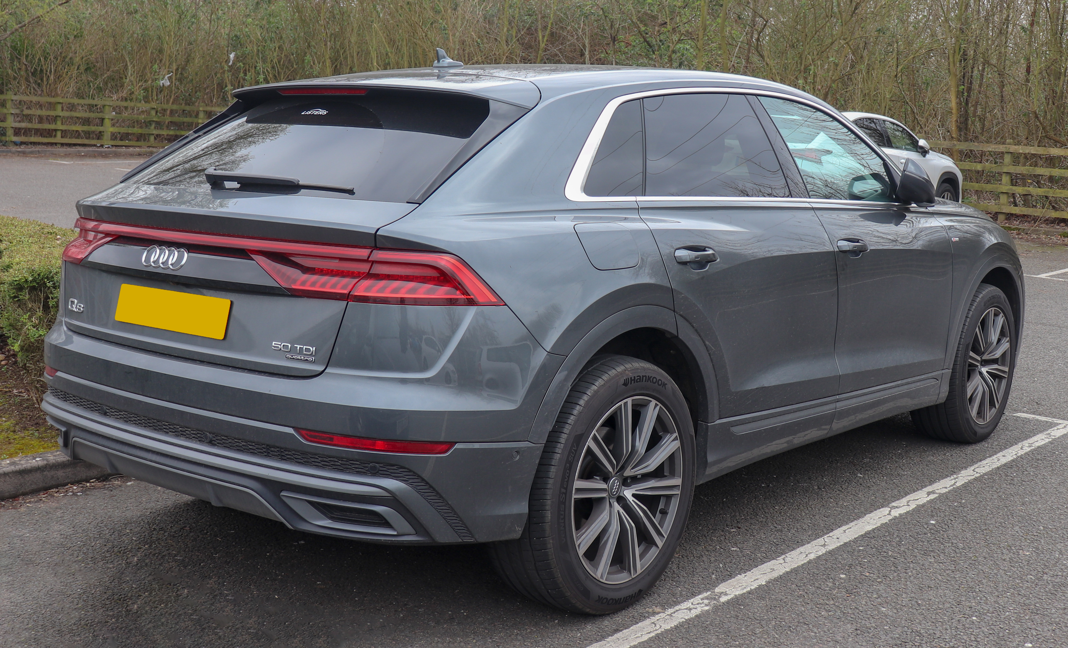 2018 Audi Q8 S Line 50 TDi Quattro 3.0 Rear Taken in Warwick